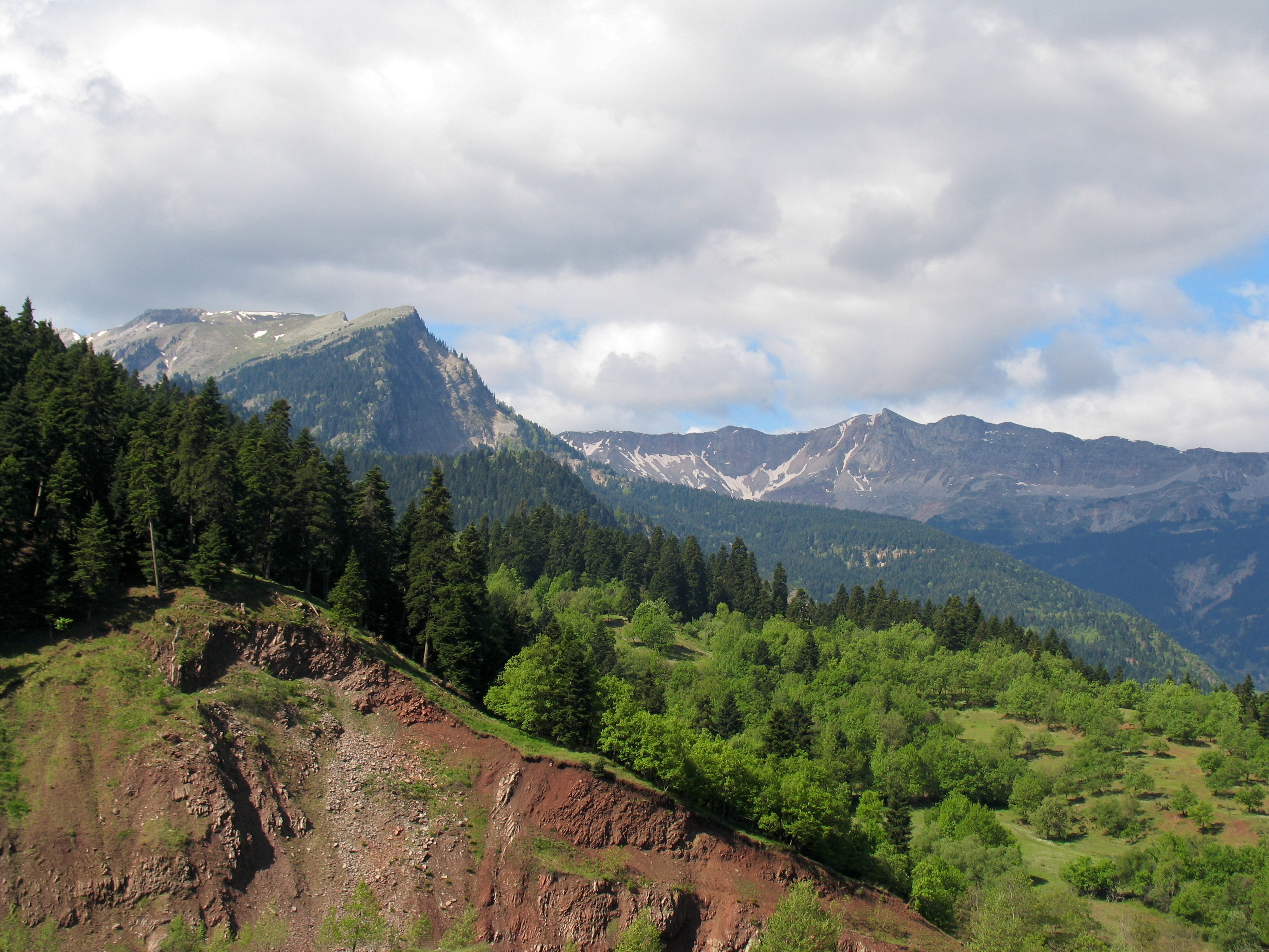 Pindos mountain range north of the village of Neraidochori in Trikala prefecture, Greece.